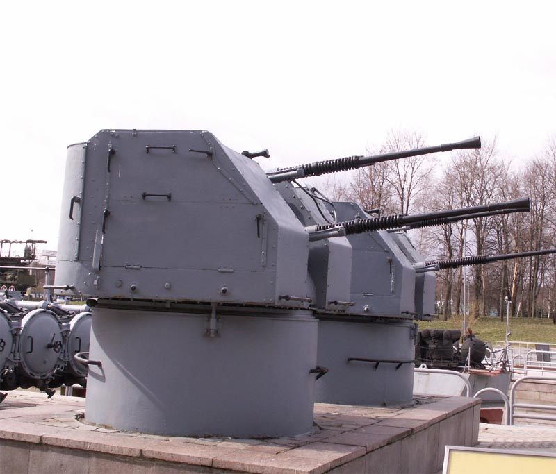 Ship weapon